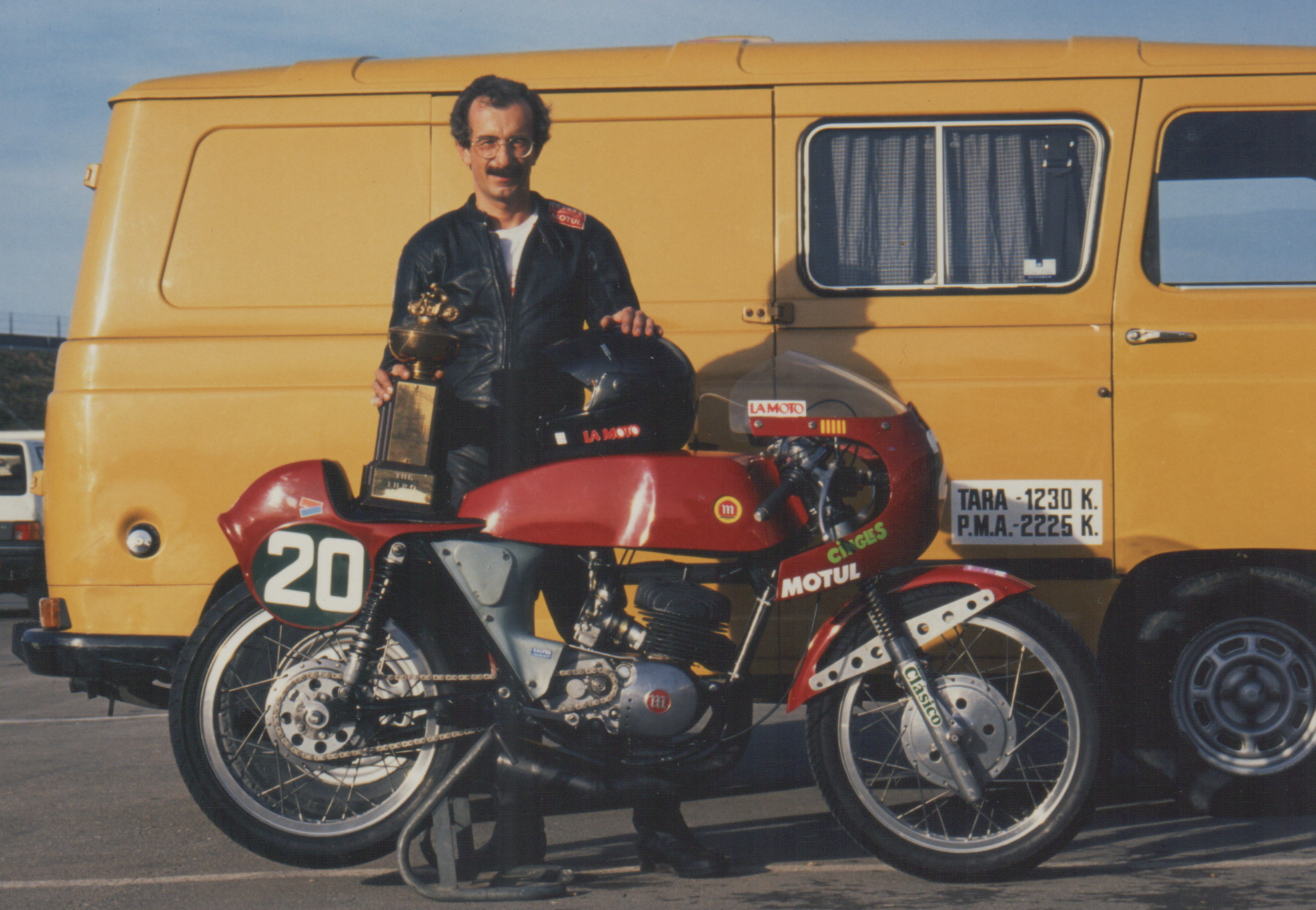 Jordi Fornas in the paddock at the Circuit de Catalunya with his Montesa Impala 250 Blitz and the IHRO Trophy, reached 1992